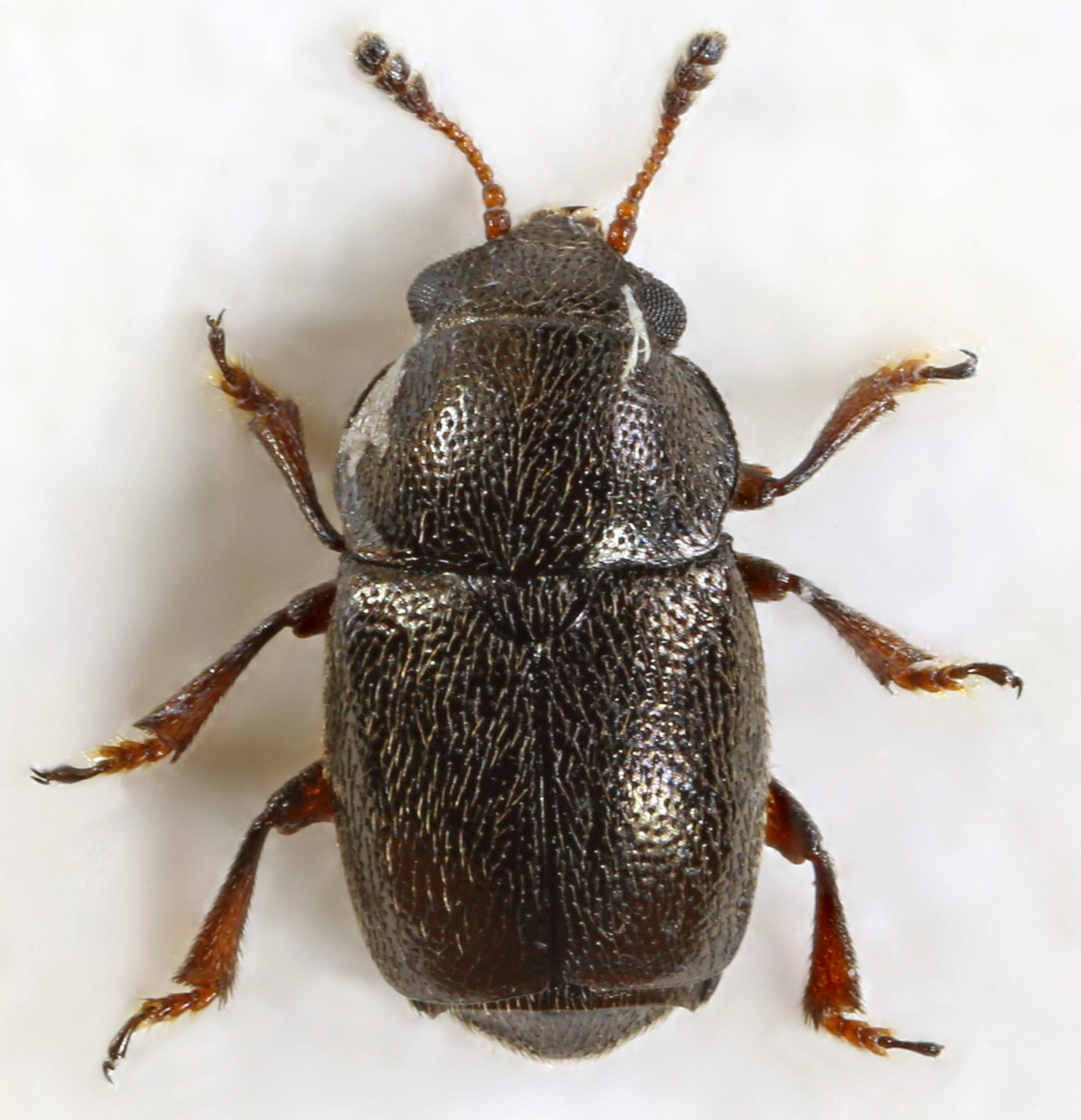 Brachypterus urticae, Alyn Waters, North Wales, Oct 2016